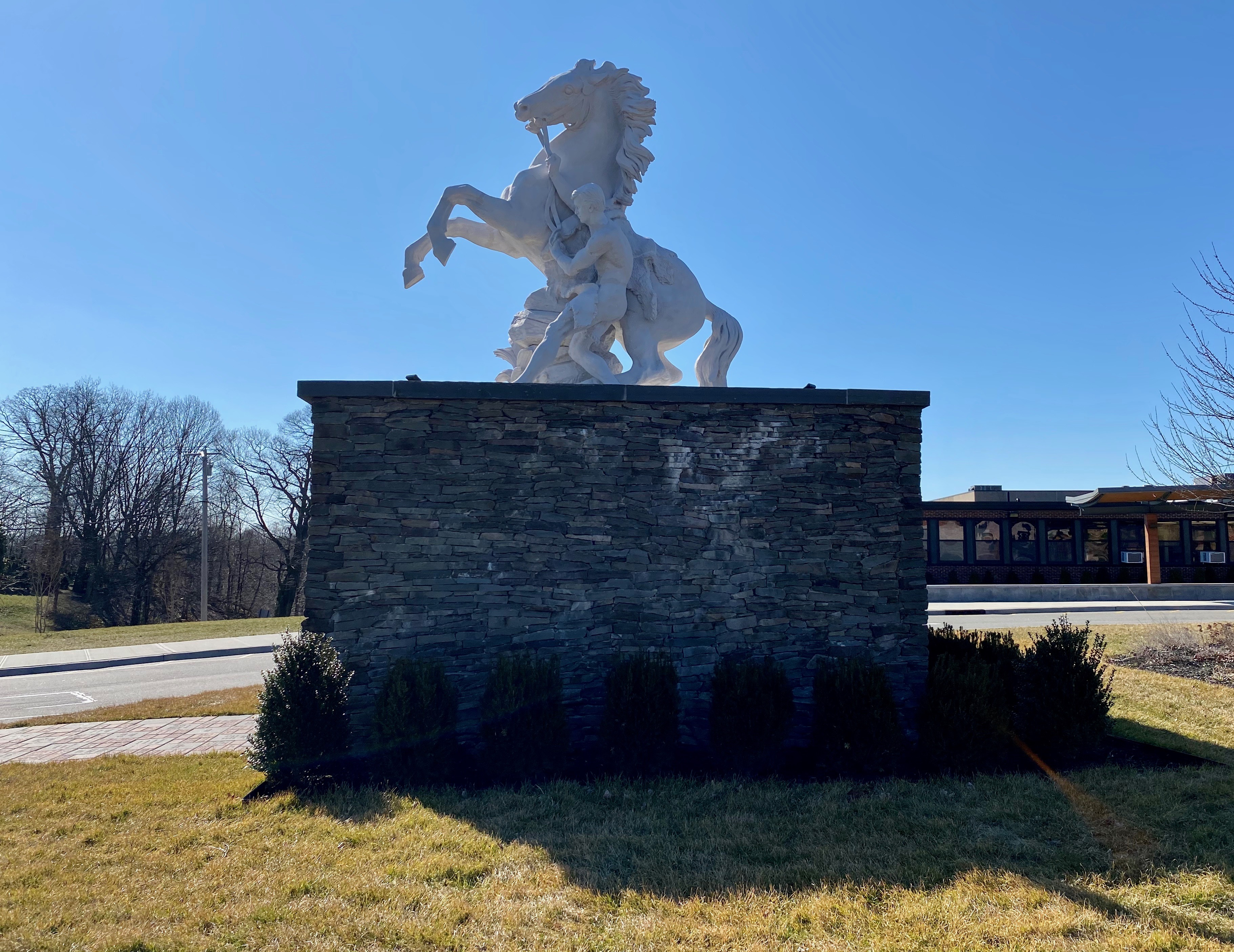 The Horse Tamer on a warm, sunny day in March, 2020. The statue was recently restored and placed atop a new pedestal, as shown in this image.